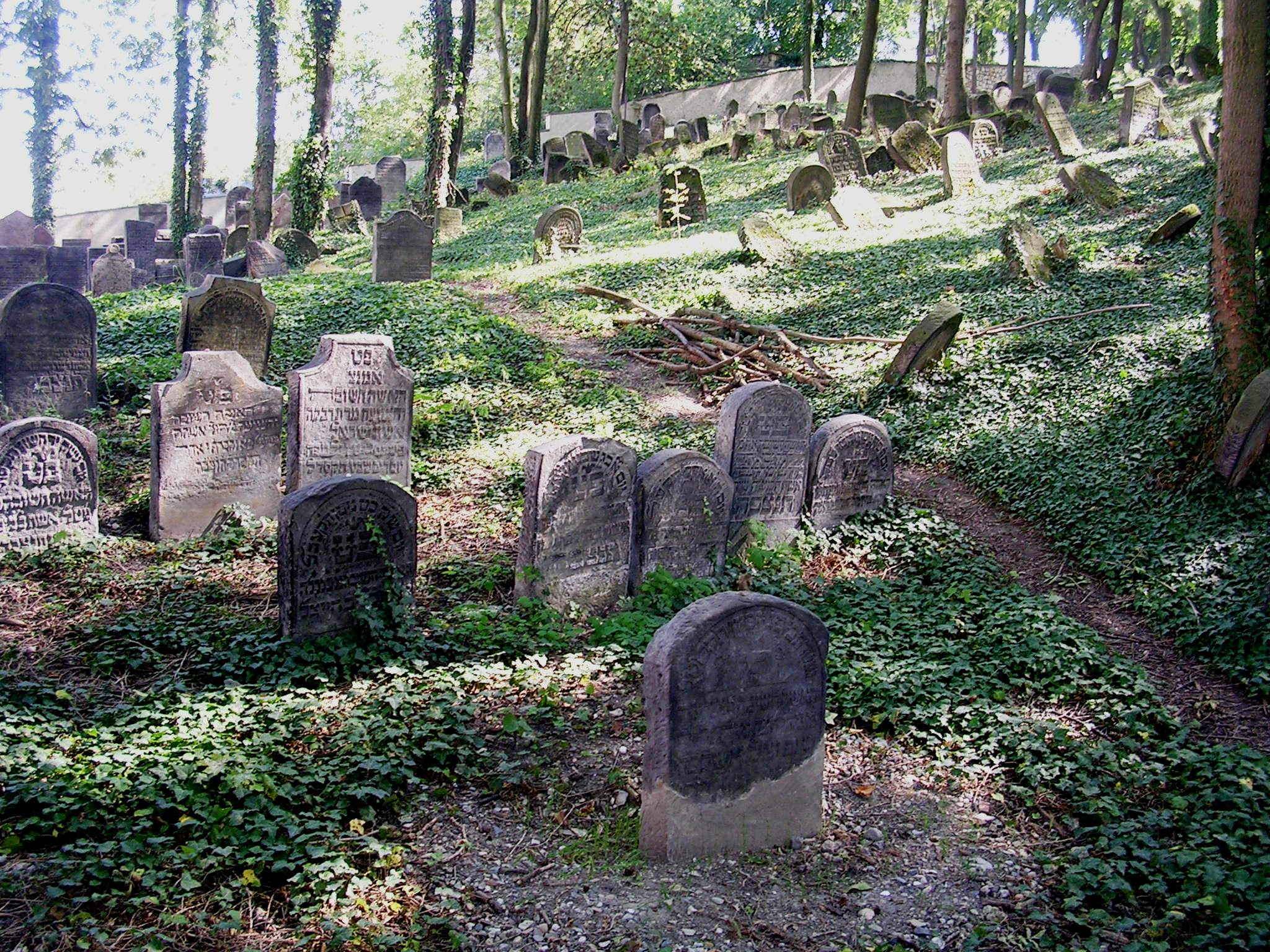 Roudnice nad Labem, Ústí nad Labem Region, the Czech Republic. Jewish cemetery.